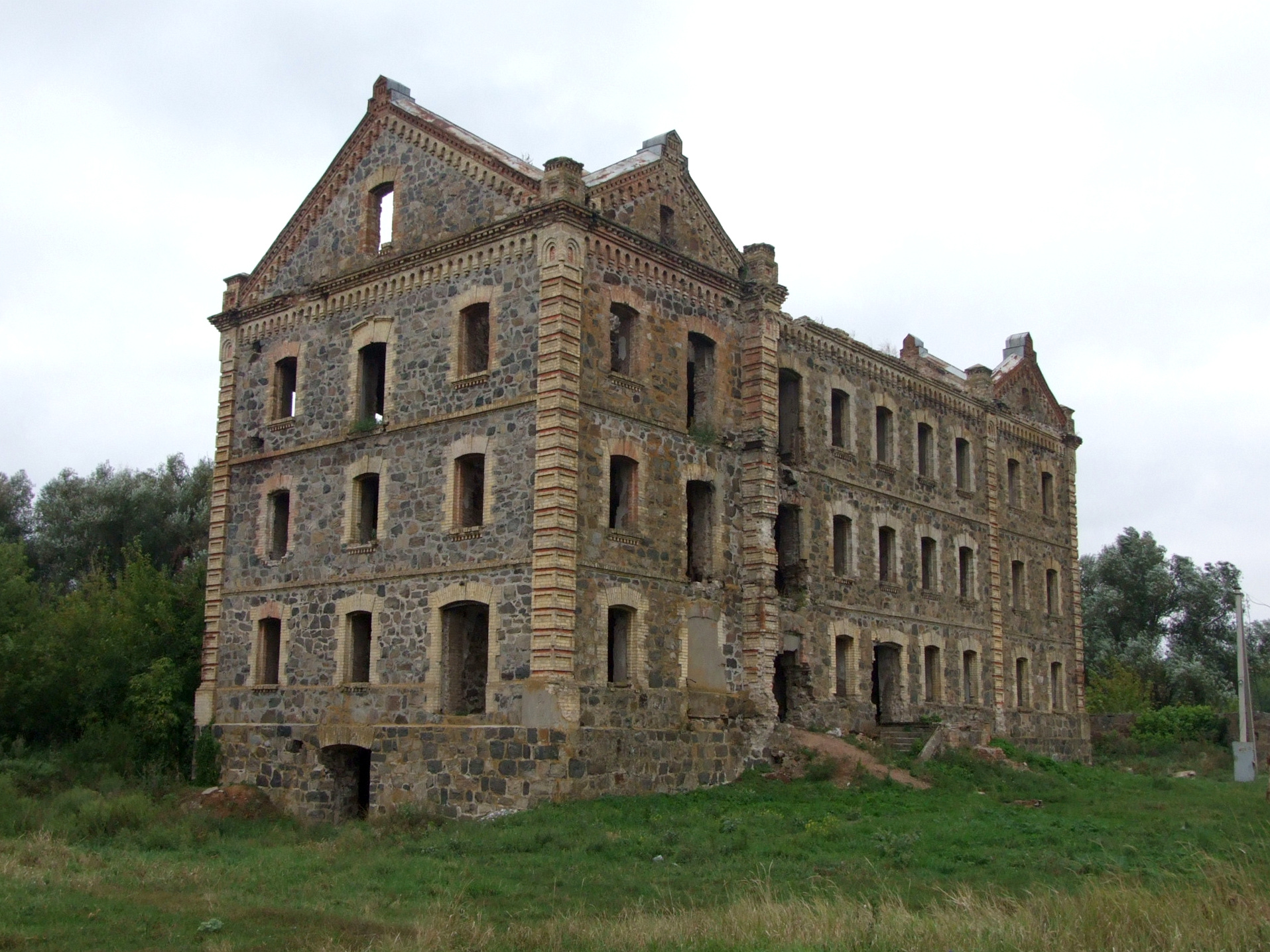 Water mill, Lupolove